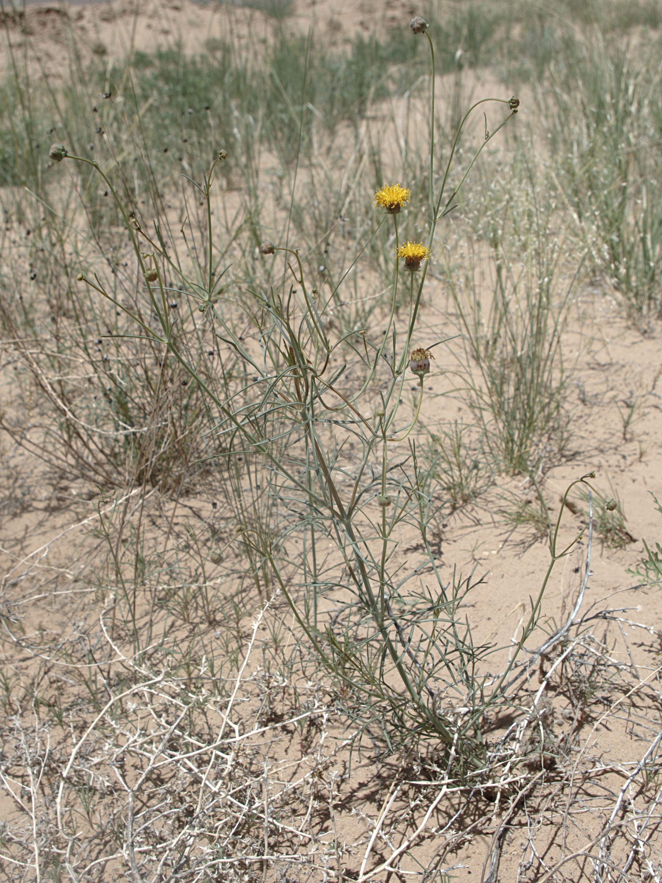 Thelesperma megapotamicum, cota or Rio Grande greenthread or Hopi greenthread, La Puebla, Santa Fe County, New Mexico.